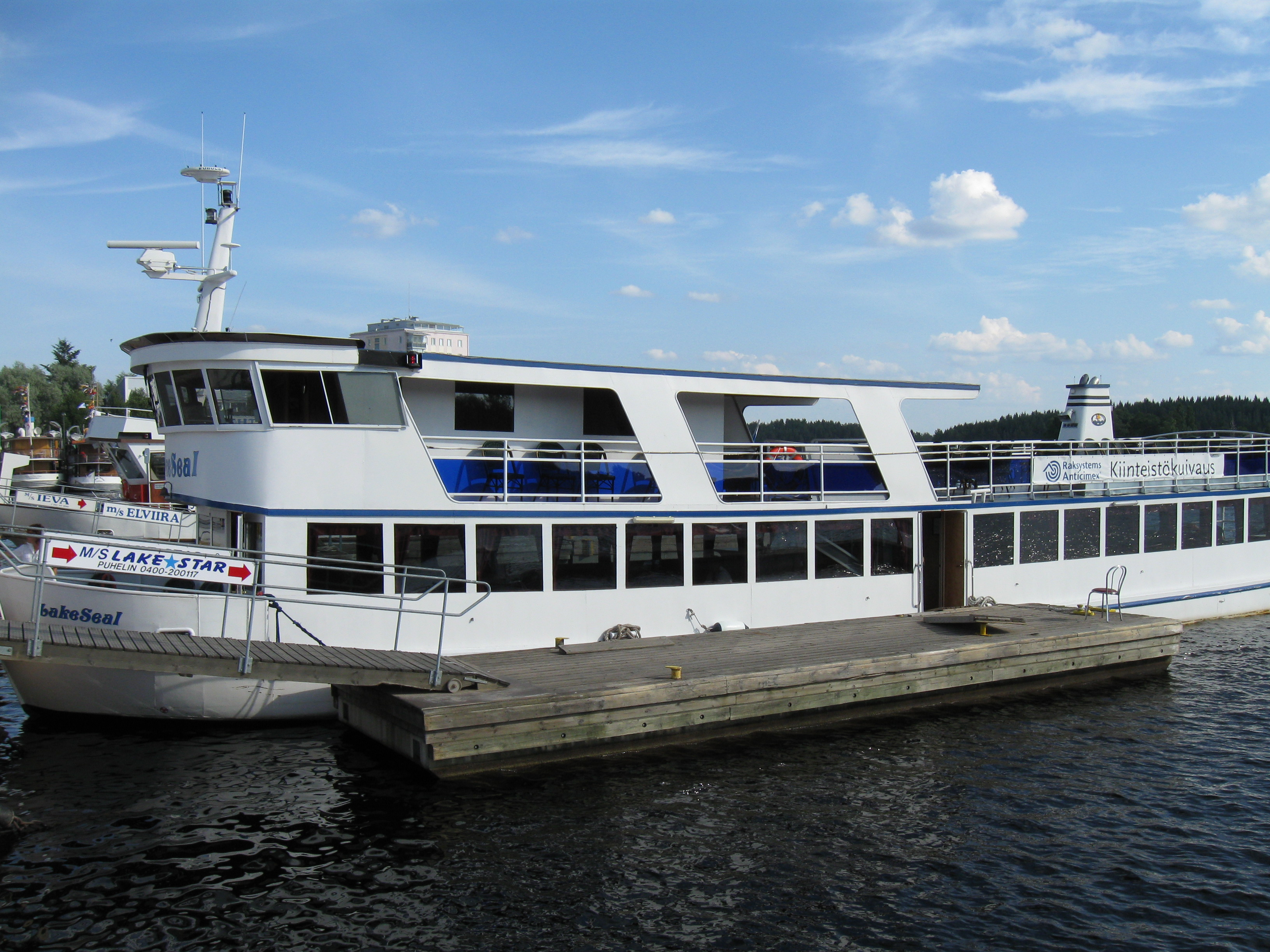 Motorship Lakeseal in Savonlinna, Finland.